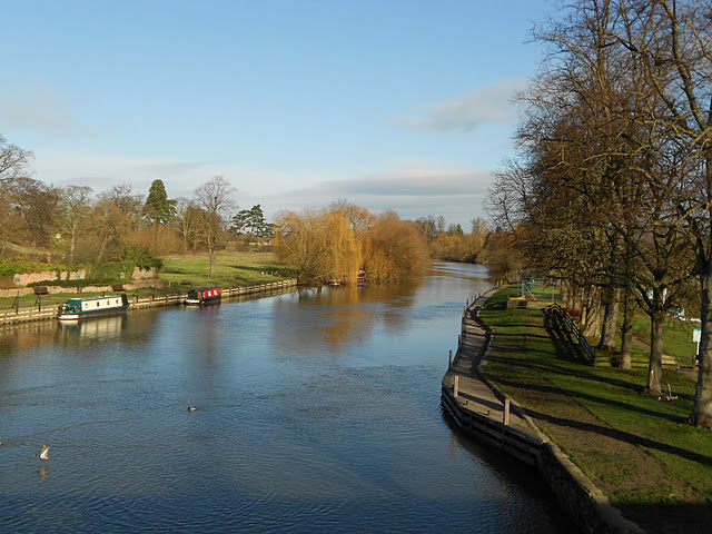 Thames as seen from Wallingford Brigde